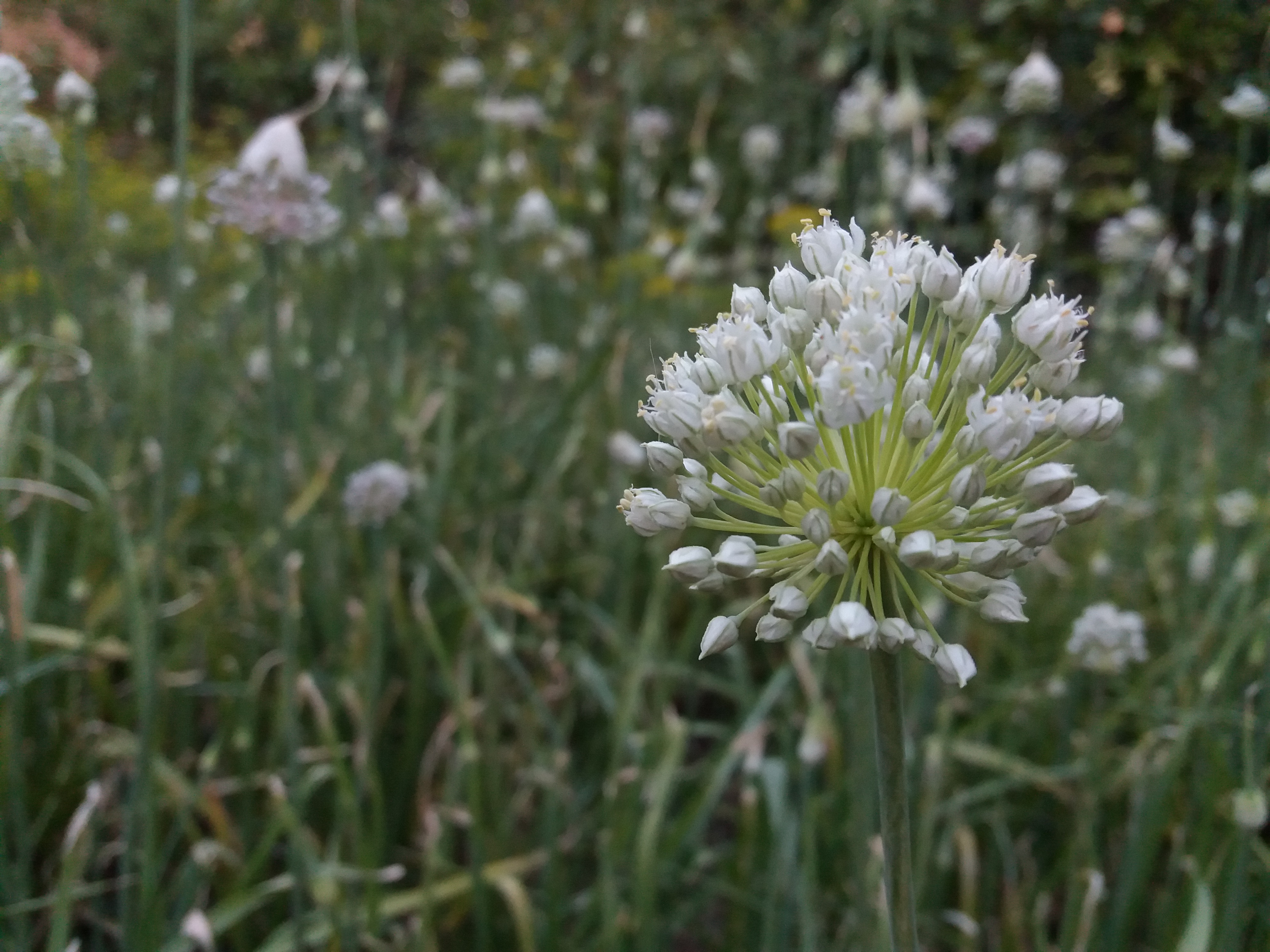 گل سبزی تره در روستای شنگل آباد